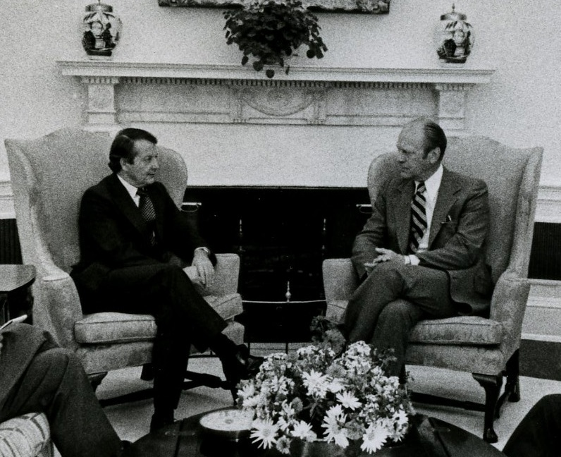 Gerald Ford in discussion with Bill Rowling, on his visit to the White House in 1975.